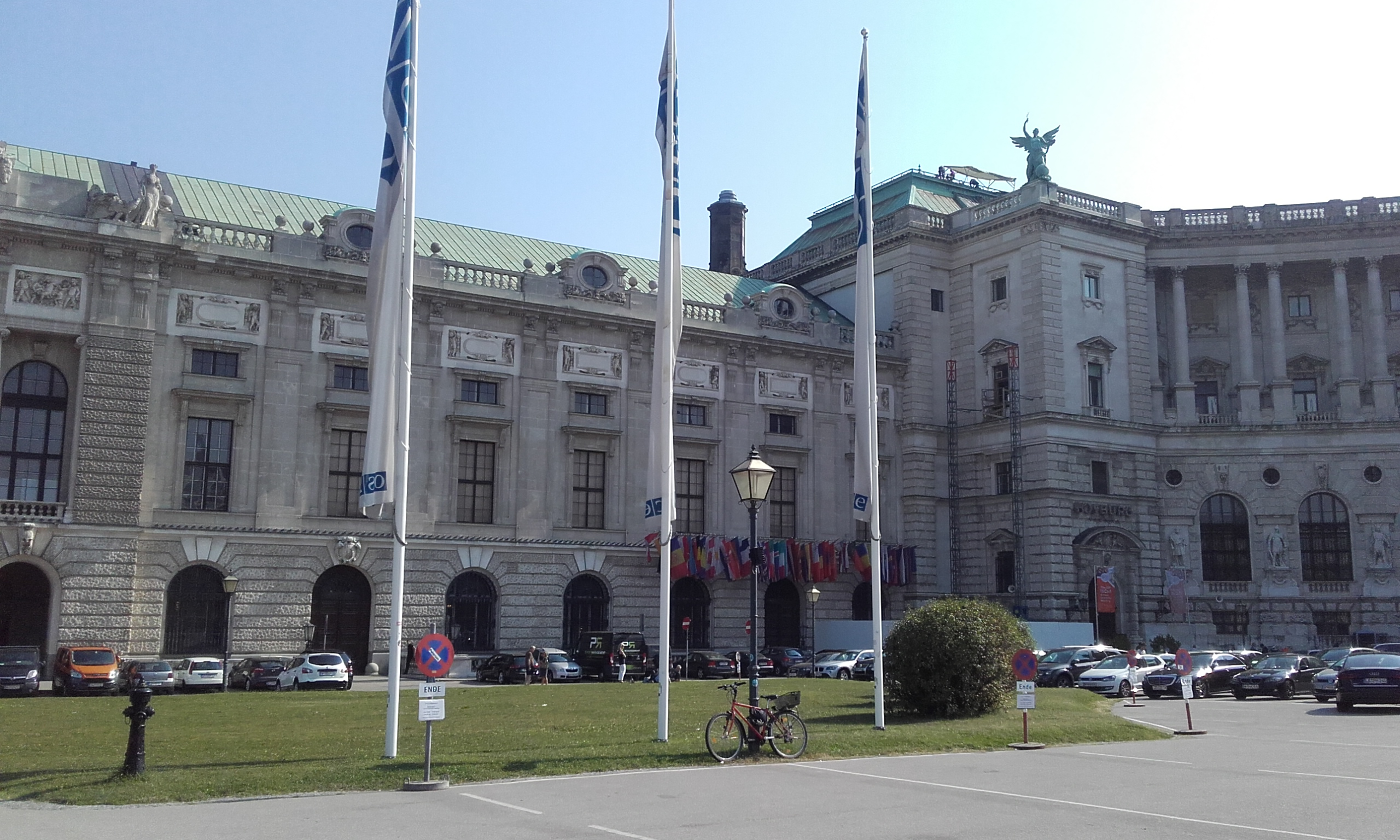 View of the building where the OSCE offices in Viena are hosted.